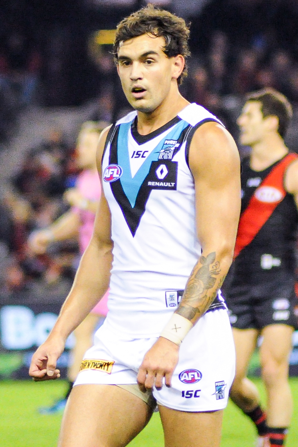 Brendon Ah Chee during the AFL round twelve match between Essendon and Port Adelaide on 10 June 2017 at Etihad Stadium in Melbourne, Victoria.